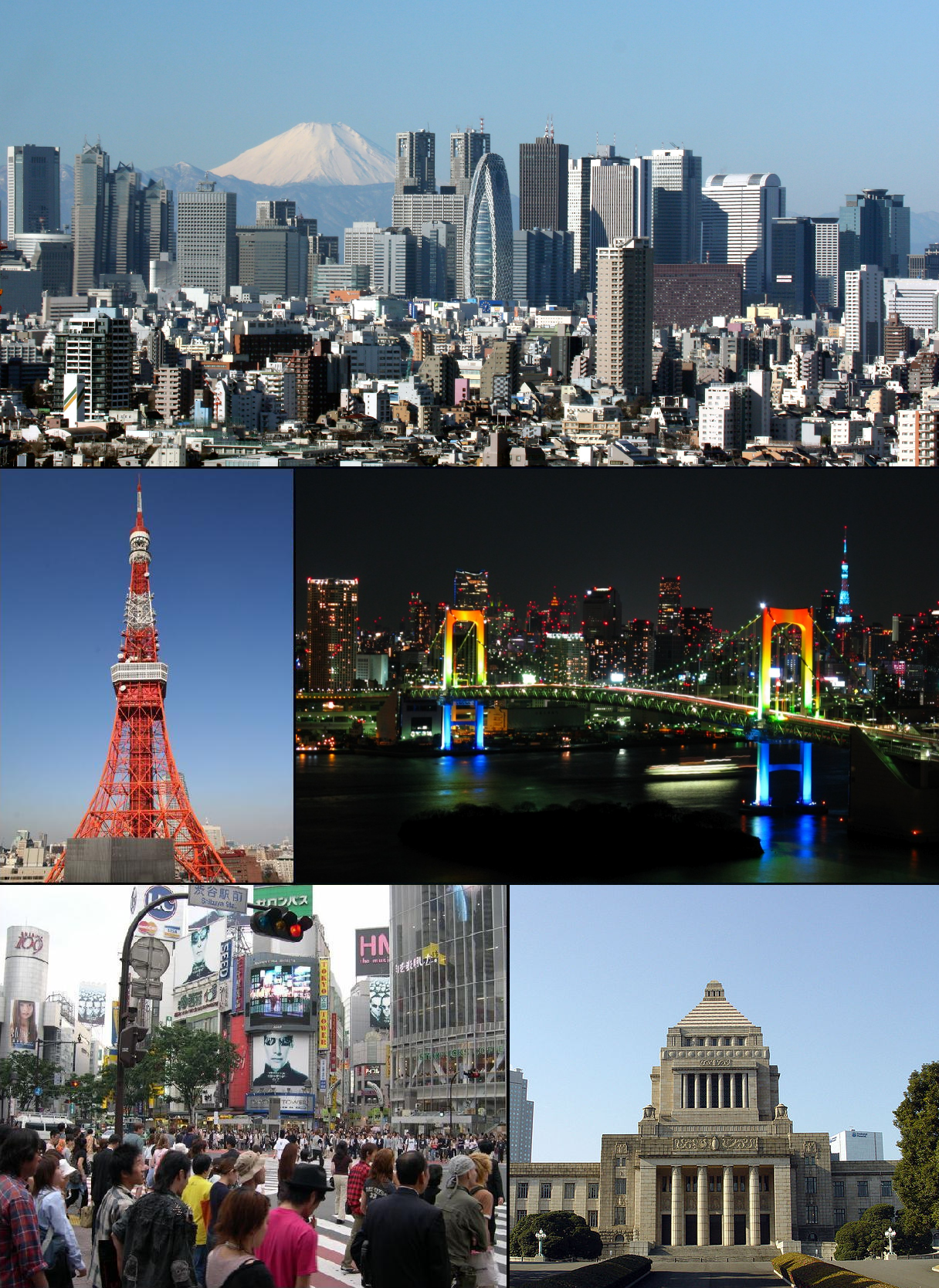 From top left: Shinjuku, Tokyo Tower, Rainbow Bridge, Shibuya, National Diet Building.